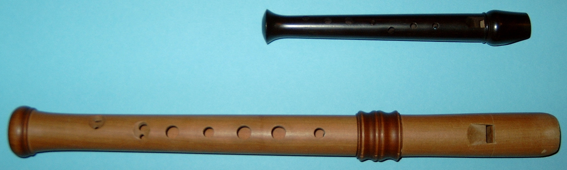 garklein recorder, made of blackwood, soprano recorder for comparison